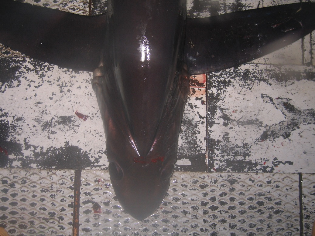 Dorsal view of a bigeye thresher shark (Alopias superciliosus)